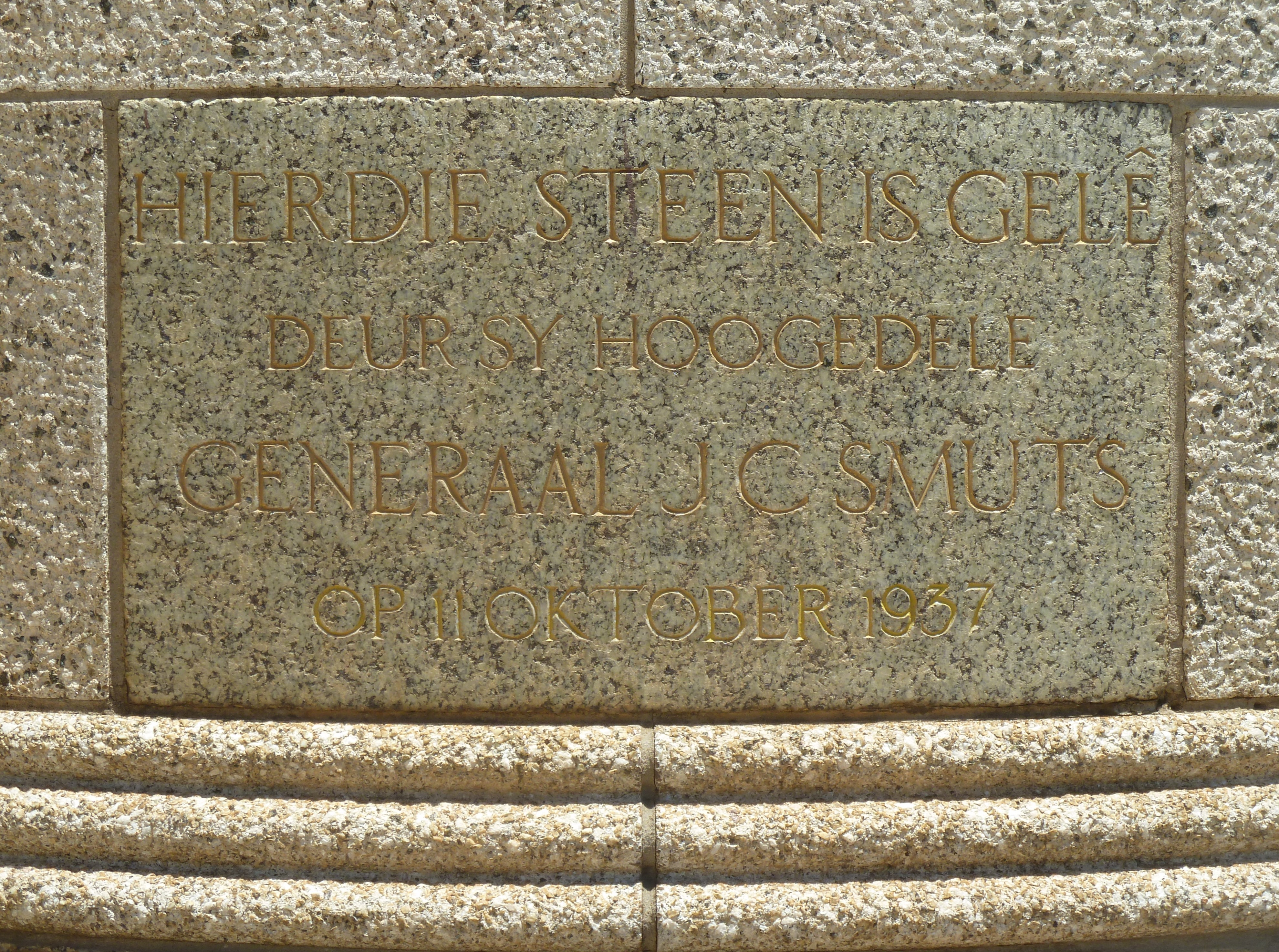 Foudation stone of the Old Merensky Library at the University of Pretoria, laid by J.C. Smuts on 11 October 1937